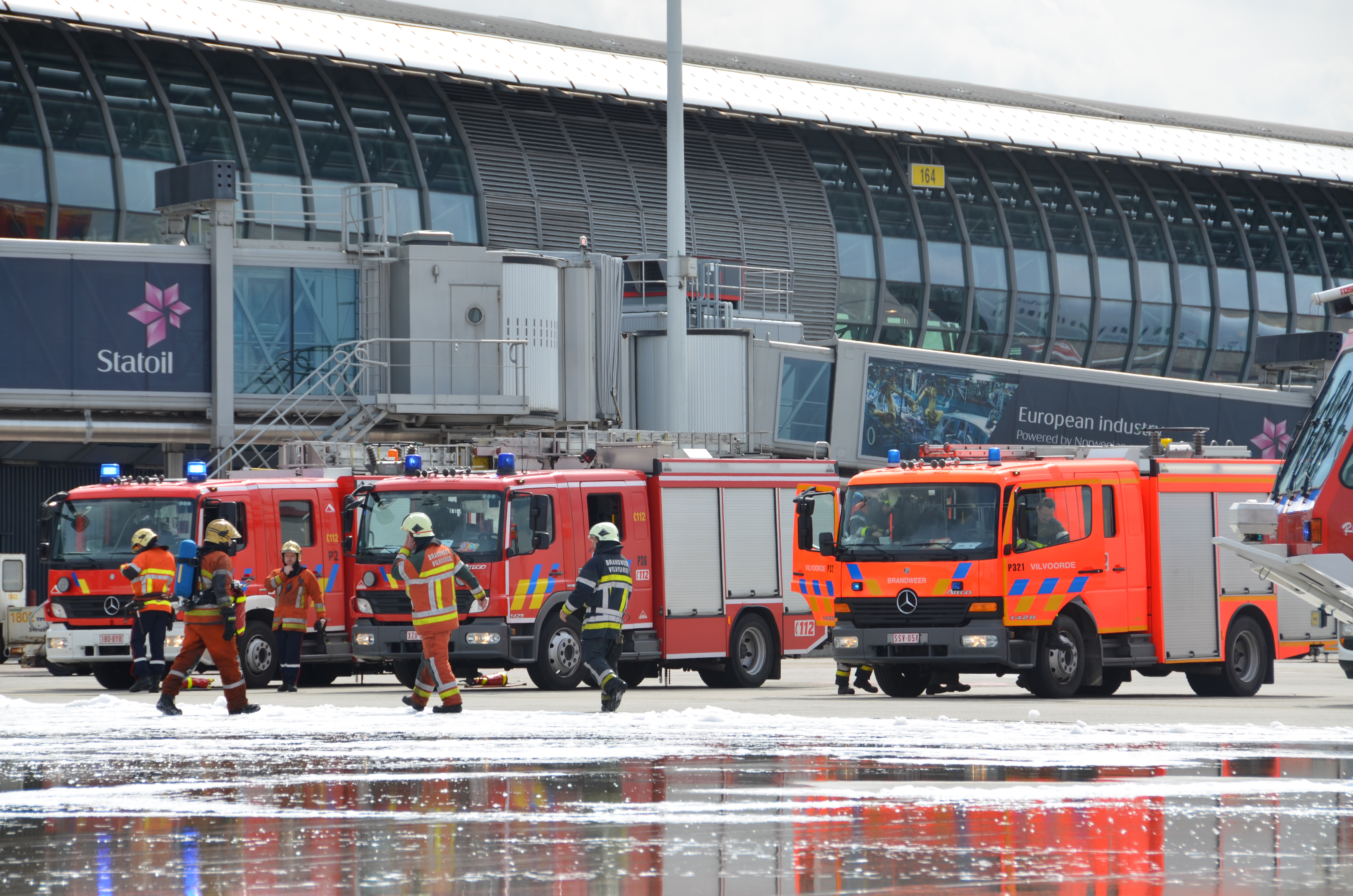 Saturday, 27th of April, we organized a large-scale emergency drill at Brussels Airport to test and evaluate the preparedness of our airport emergency services in the event of an incident. Read more on